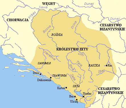 Kingdom of Zeta in 1084